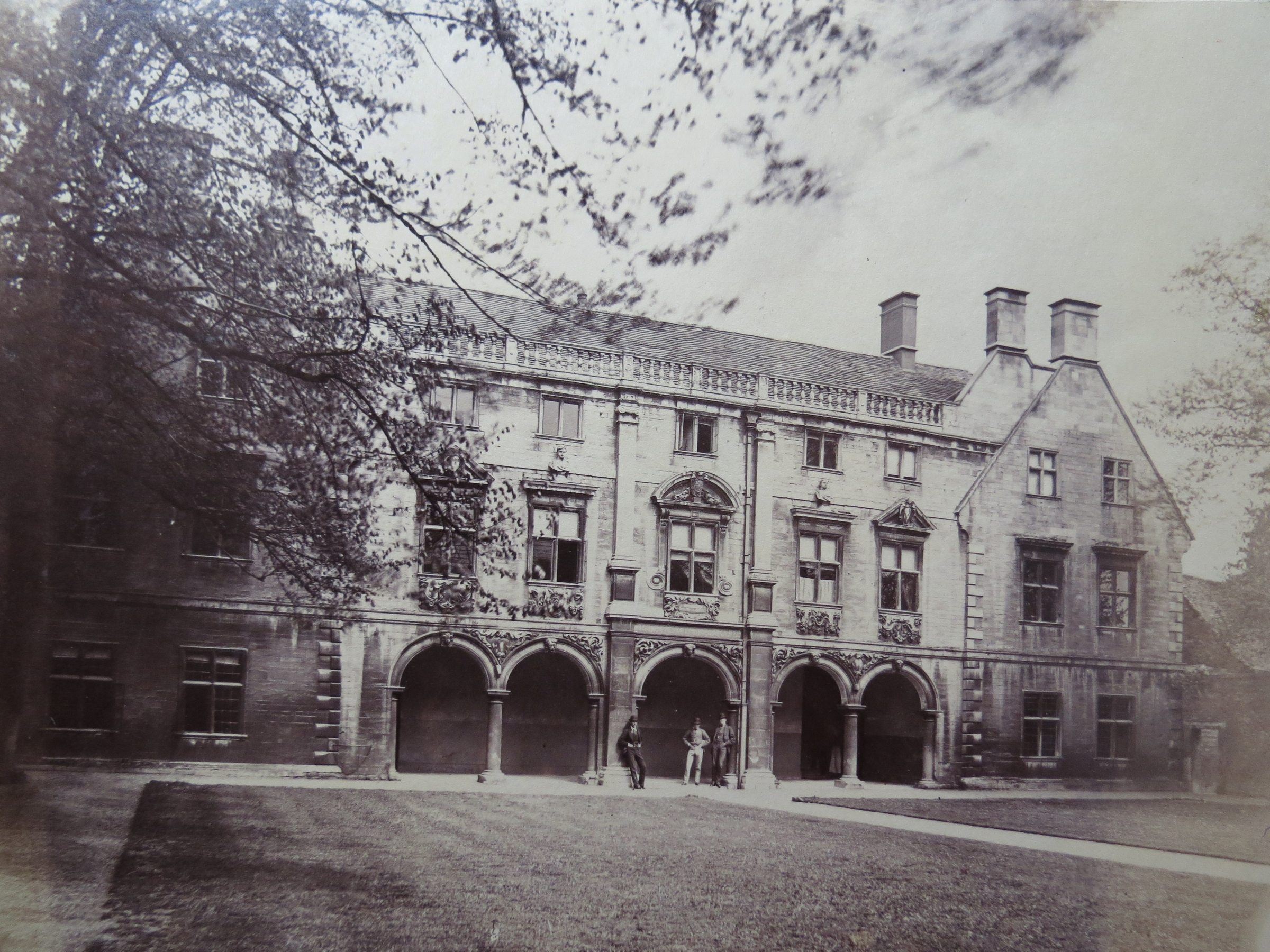 Pepys Library, Magdalene College, Cambridge. Image taken from original albumen print from a bound album of 58 Cambridge University photographs. Original 19th century album in the possession of Kimberly Blaker, New Boston Fine and Rare Books.